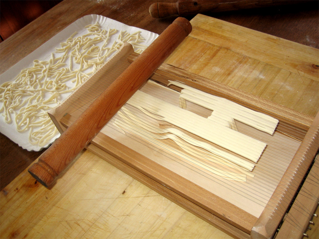 Stringozzi is an Italian wheat pasta, among the more notable of those produced in the region of Umbria